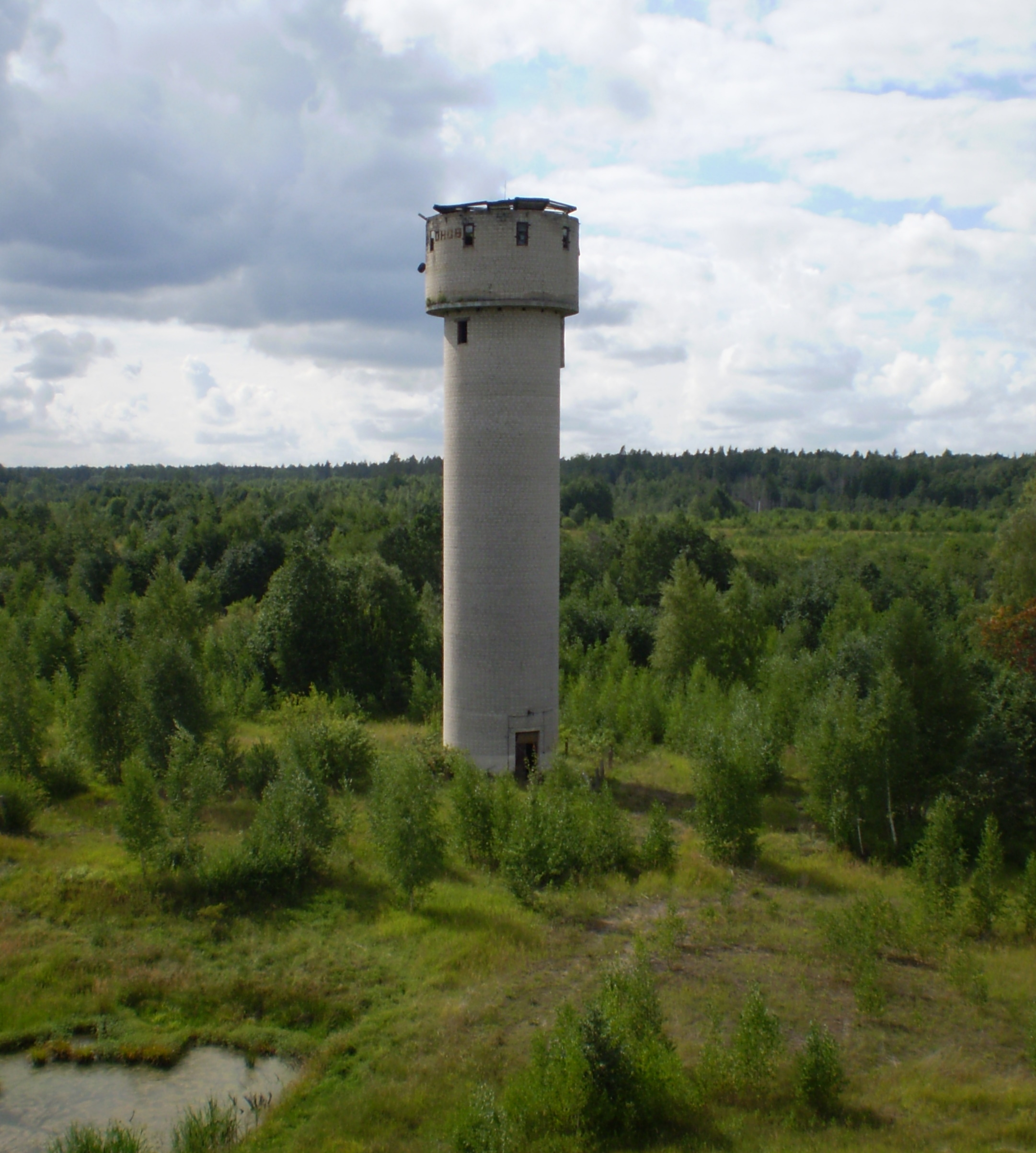 A tower in abandoned soviet military base near Skrunda, Latvia.